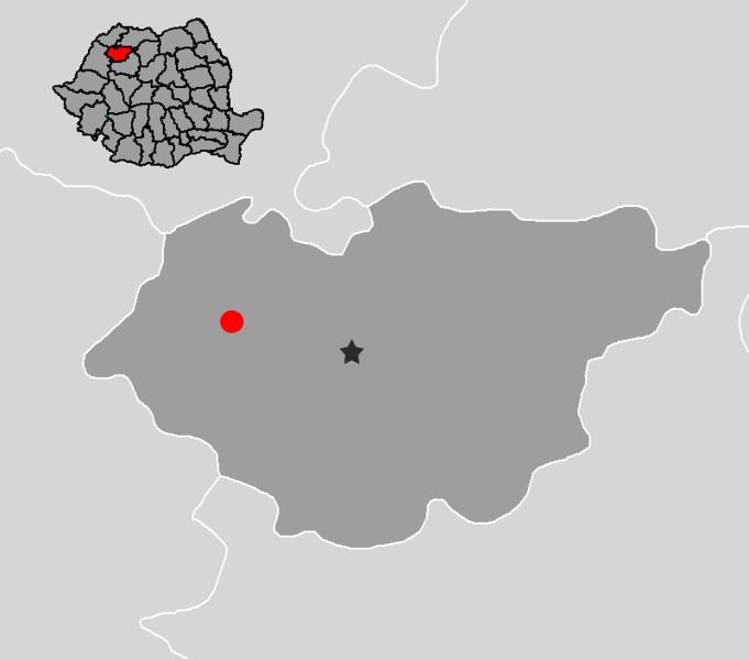 Location of Giurtelecu Şimleului within Sălaj County